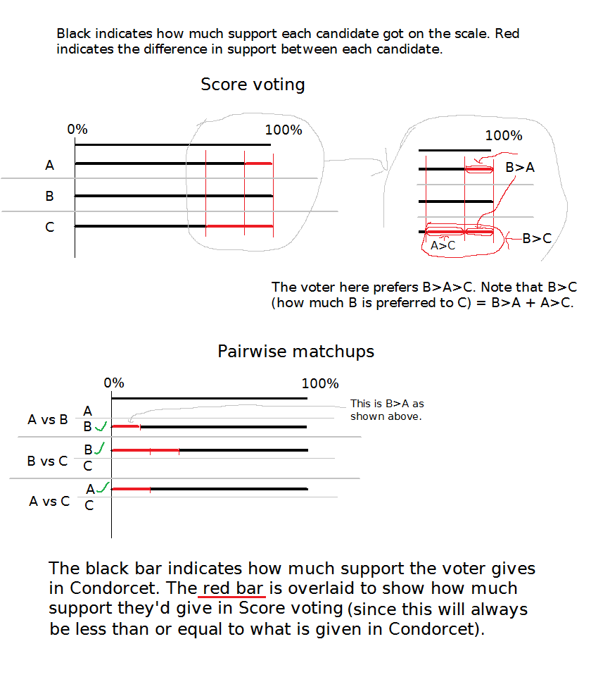 Describes the connection between Condorcet methods and Score voting in terms of how both can be thought of as measuring voters' pairwise preferences in different ways.